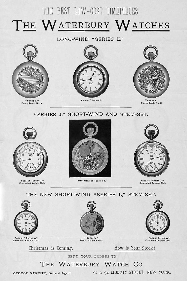 Advertisement for "Series E" of Waterbury watches.